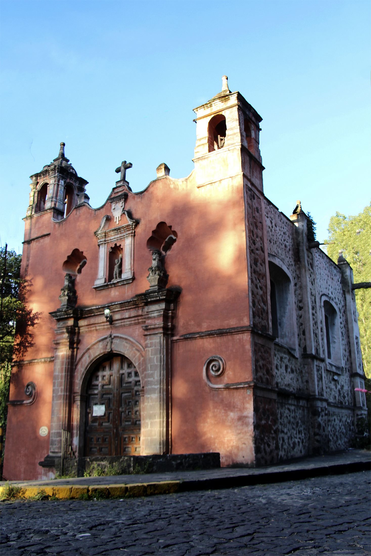 Templo de San Antonio de Panzacola ubicado en Francisco Sosa esquina con Universidad en Coyoacán D.F.